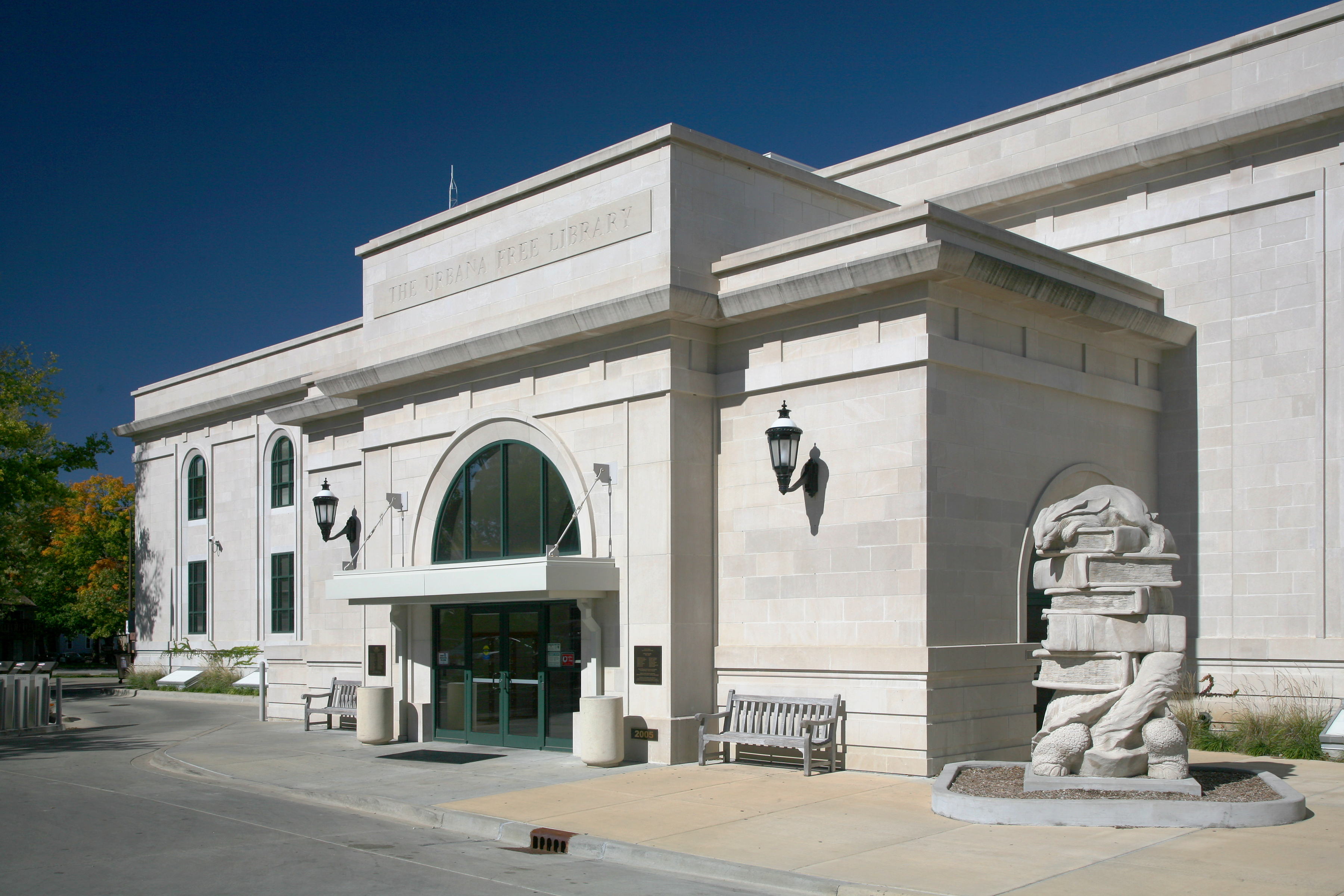 Urbana Free Library entrance, Urbana, Illinois